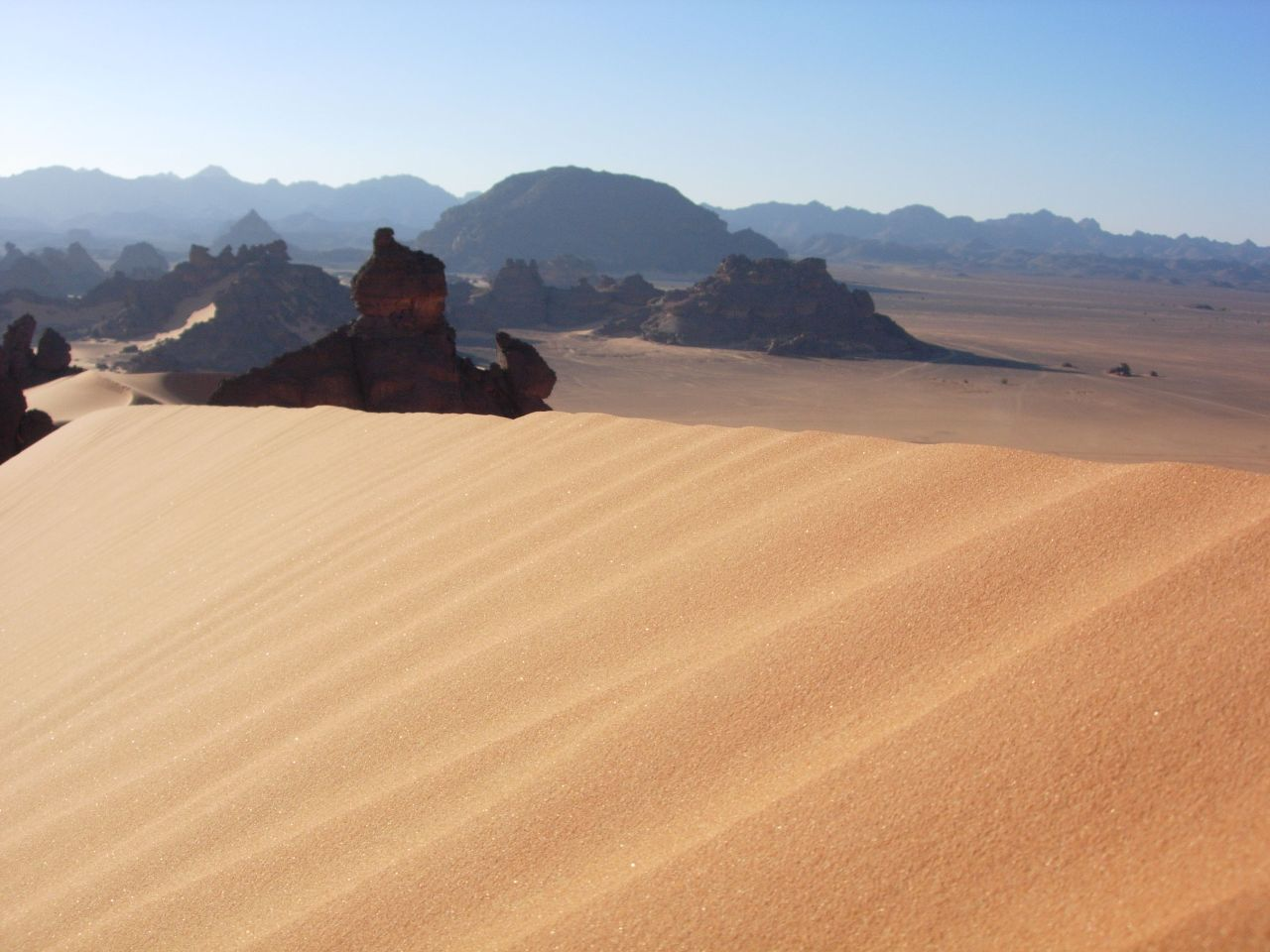 Libya is a predominantly desert country. Up to 99% of the land area is covered in desert. Pictured here is the mountainous southern part of the country.